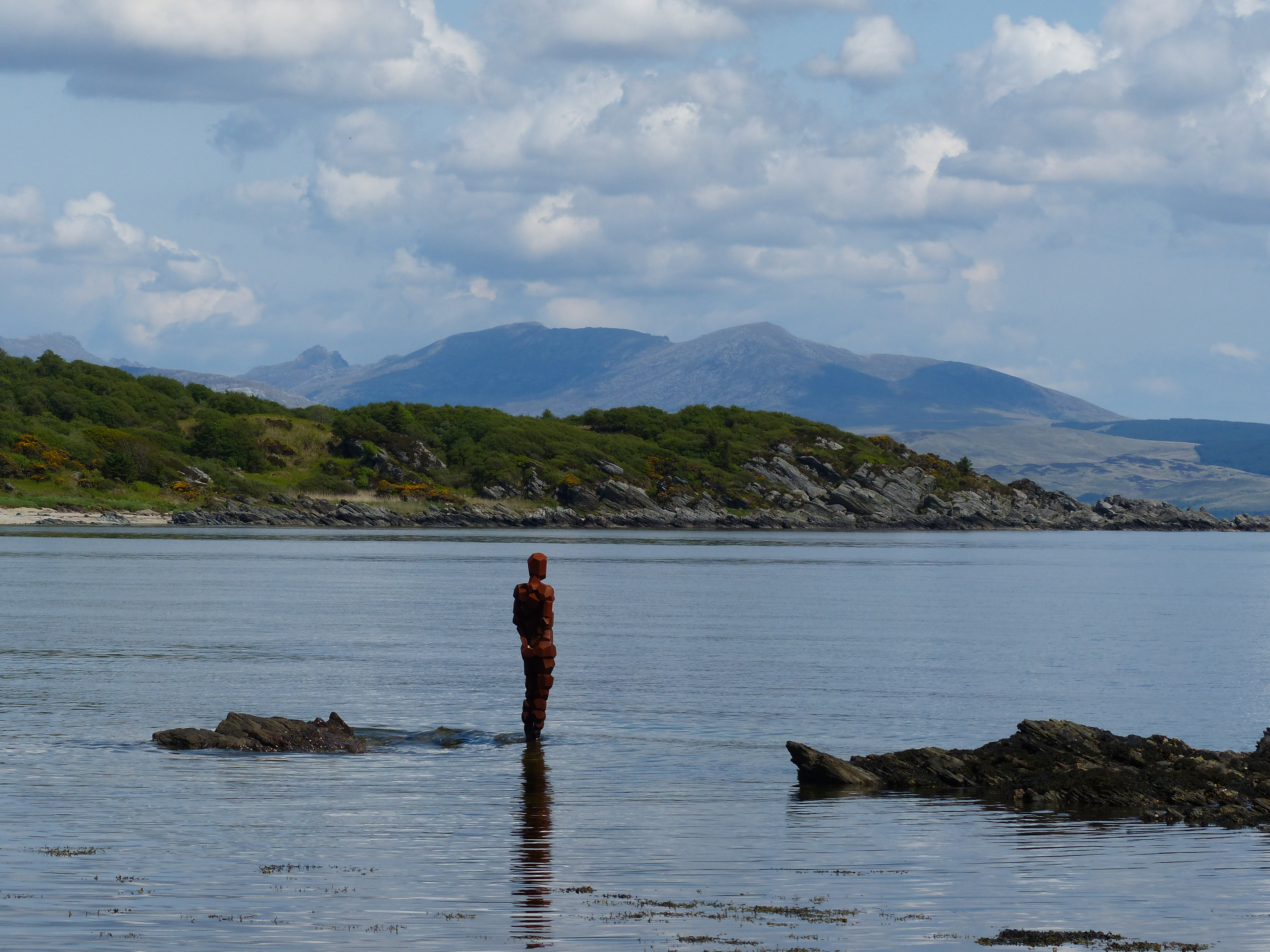 Iron life-sized sculpture - Land - by Antony Gormley at Saddell Bay looking towards Arran at high tide.